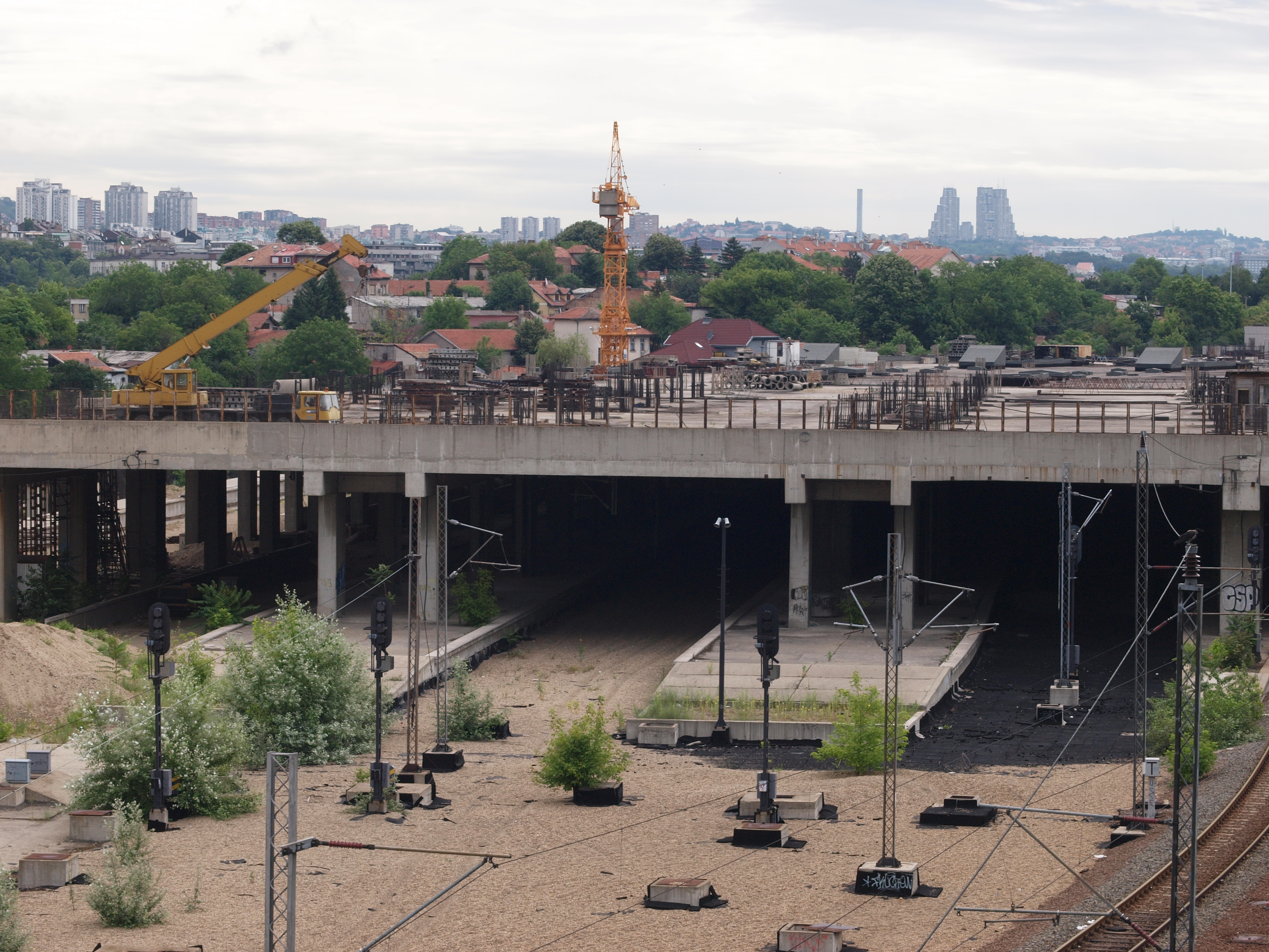 Prokop construction site